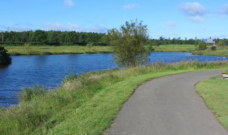 Lake on the Poddle in Tymon Park (E), M50 in background